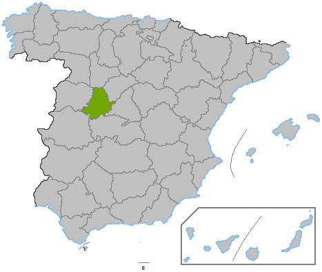 Location of the province of Ávila, in Spain. Basado en: ProvPont.jpg Source: Designed by Satesclop. Original picture, designed by Sobreira.